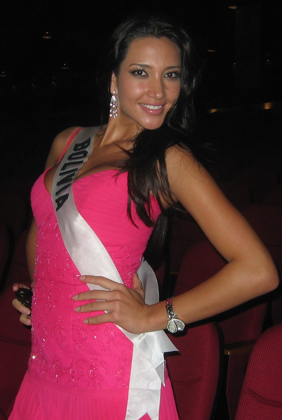 Katherine David Miss Bolivia Miss Universe 2008